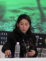 Mihoko Higuchi in 2017